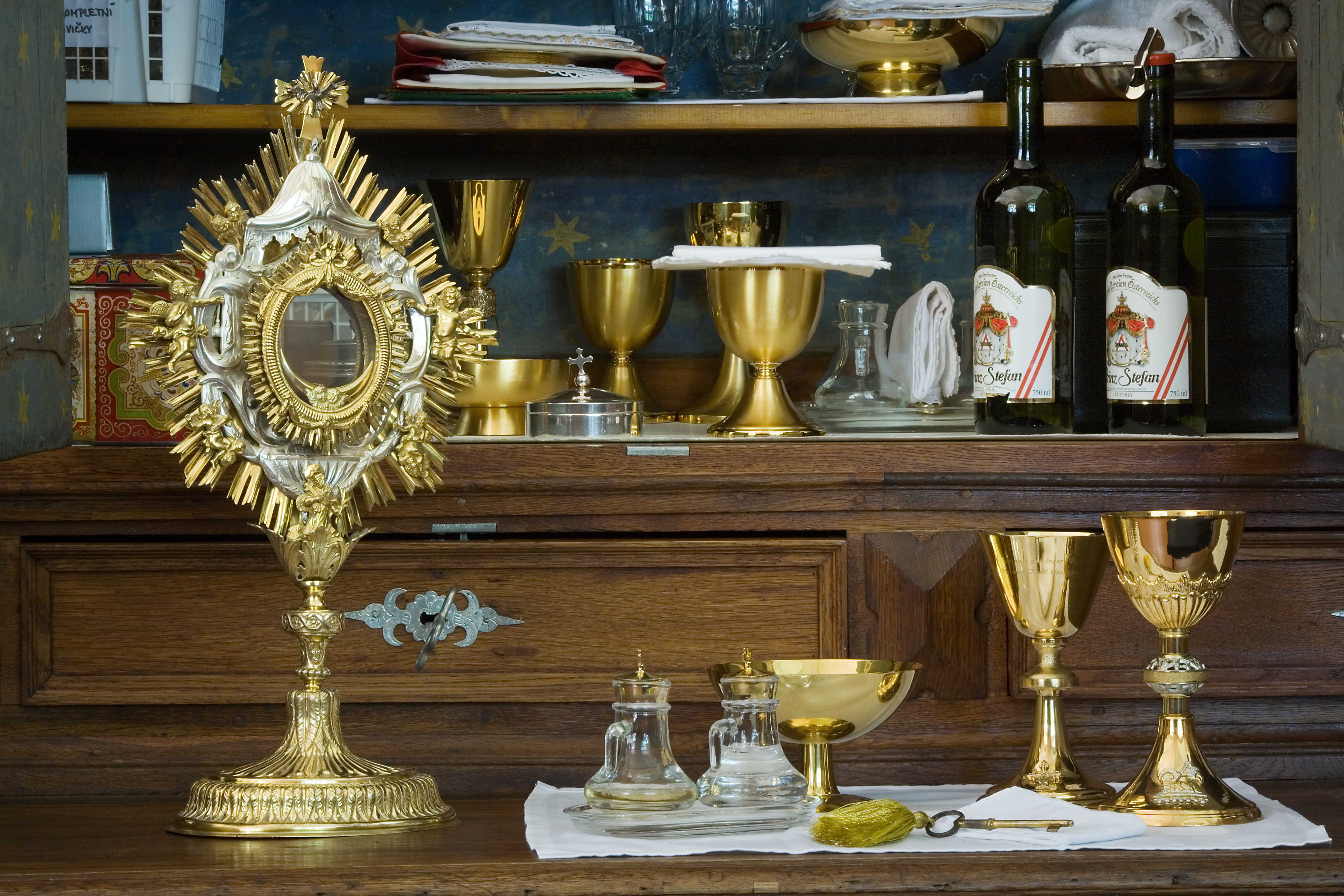 Ostensory or Monstrance and catholic mass paraphernalia